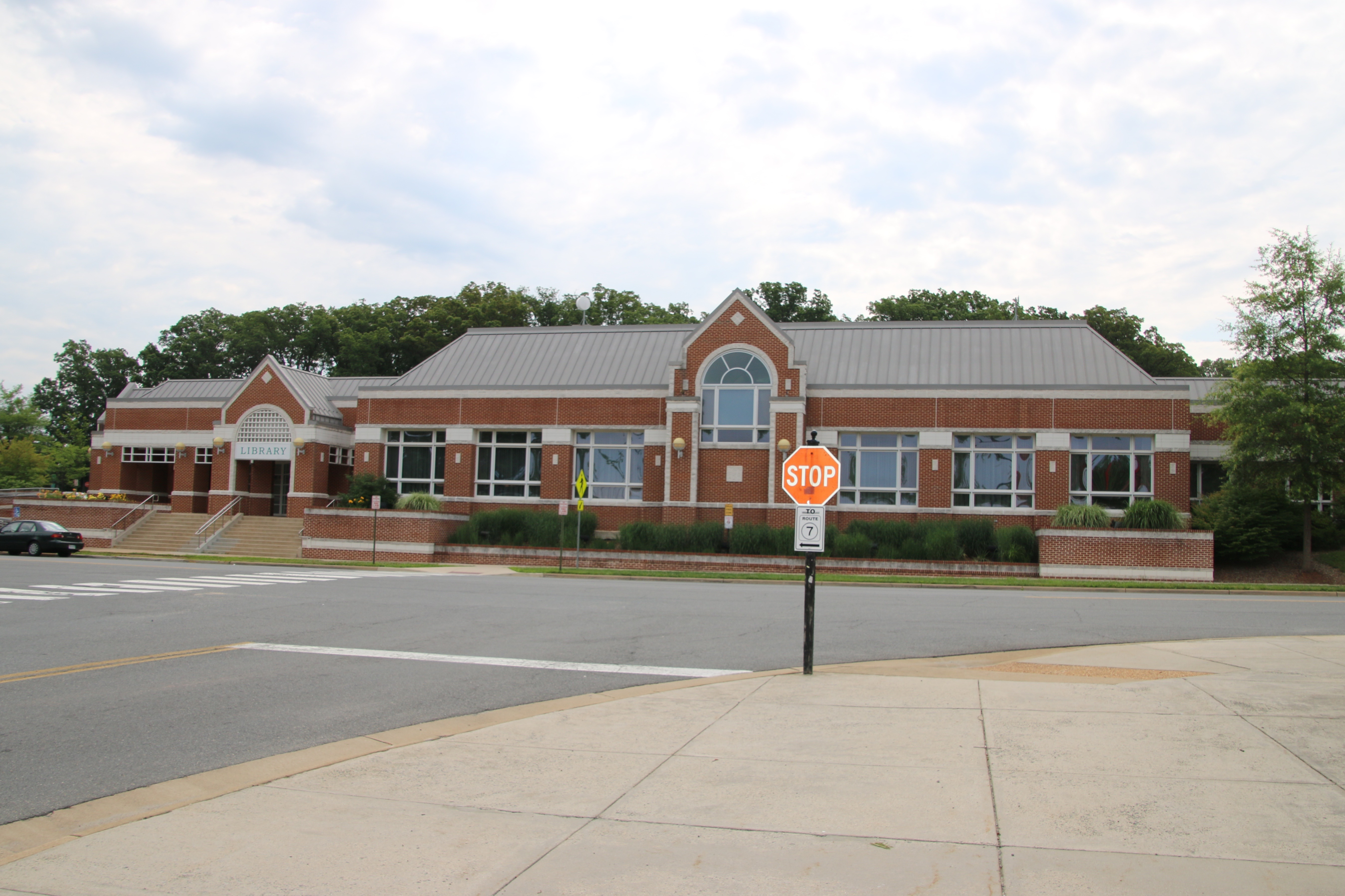 Cascades branch of the Loudoun County Public Library as seen from Cascades Marketplace.